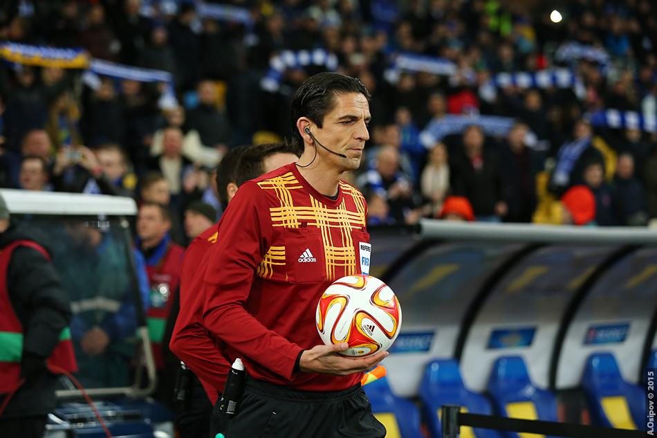 UEFA Europa League 2014-15 1/8 Final NSK Olimpiyskyi - Kyiv 19/03/2015 - 19:00CET (20:00 local time) Round of 16, Second leg Dynamo Kyiv - Everton - 5:2